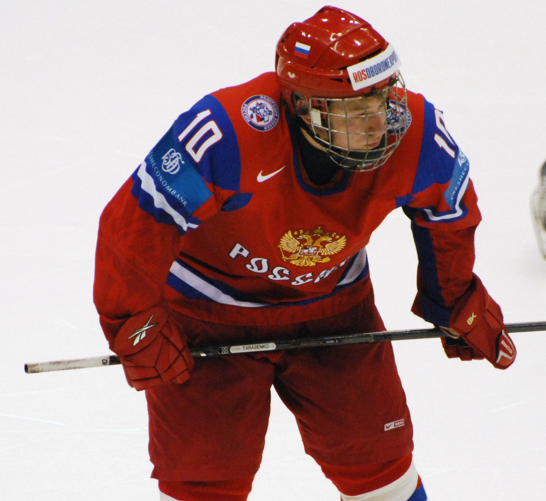 Vladimir Tarasenko during a game at the 2010 World Junior Hockey Championships.